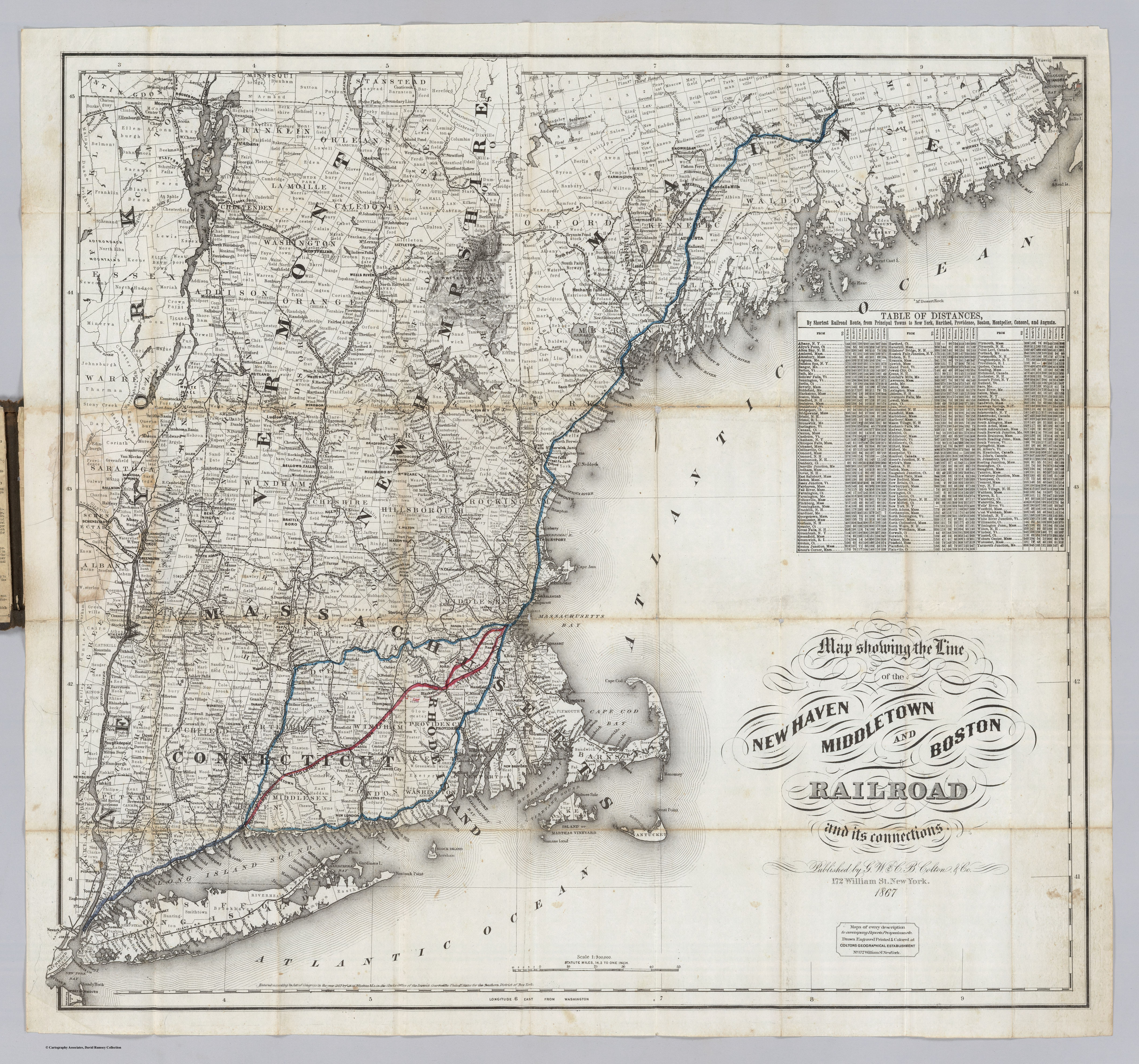 1867 map of New England railroads, highlighting the New Haven, Middletown & Boston Railroad (red) and its connections (blue).